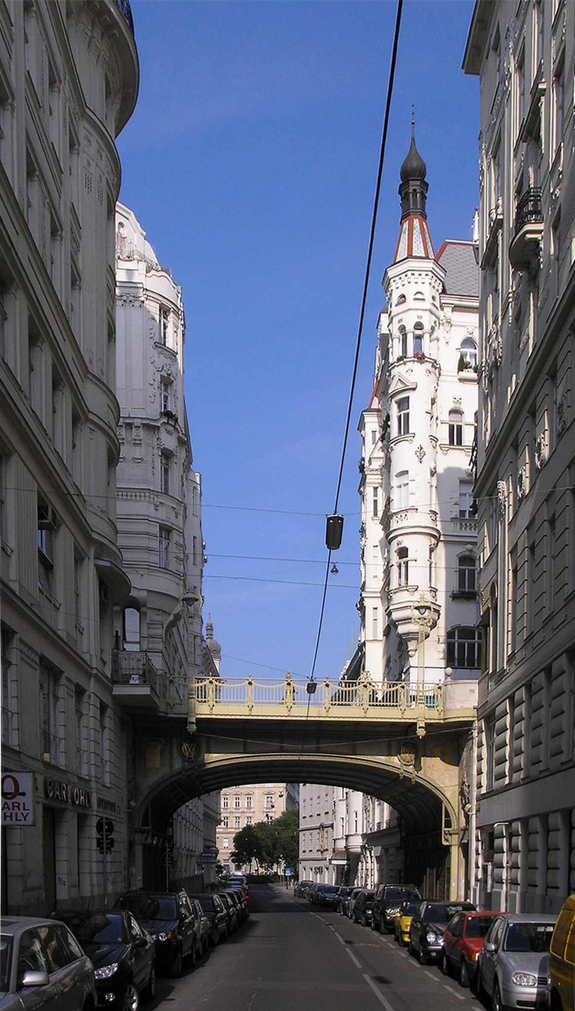 Image of the iron bridge over the Tiefer Graben street in Vienna's first district Innere Stadt.